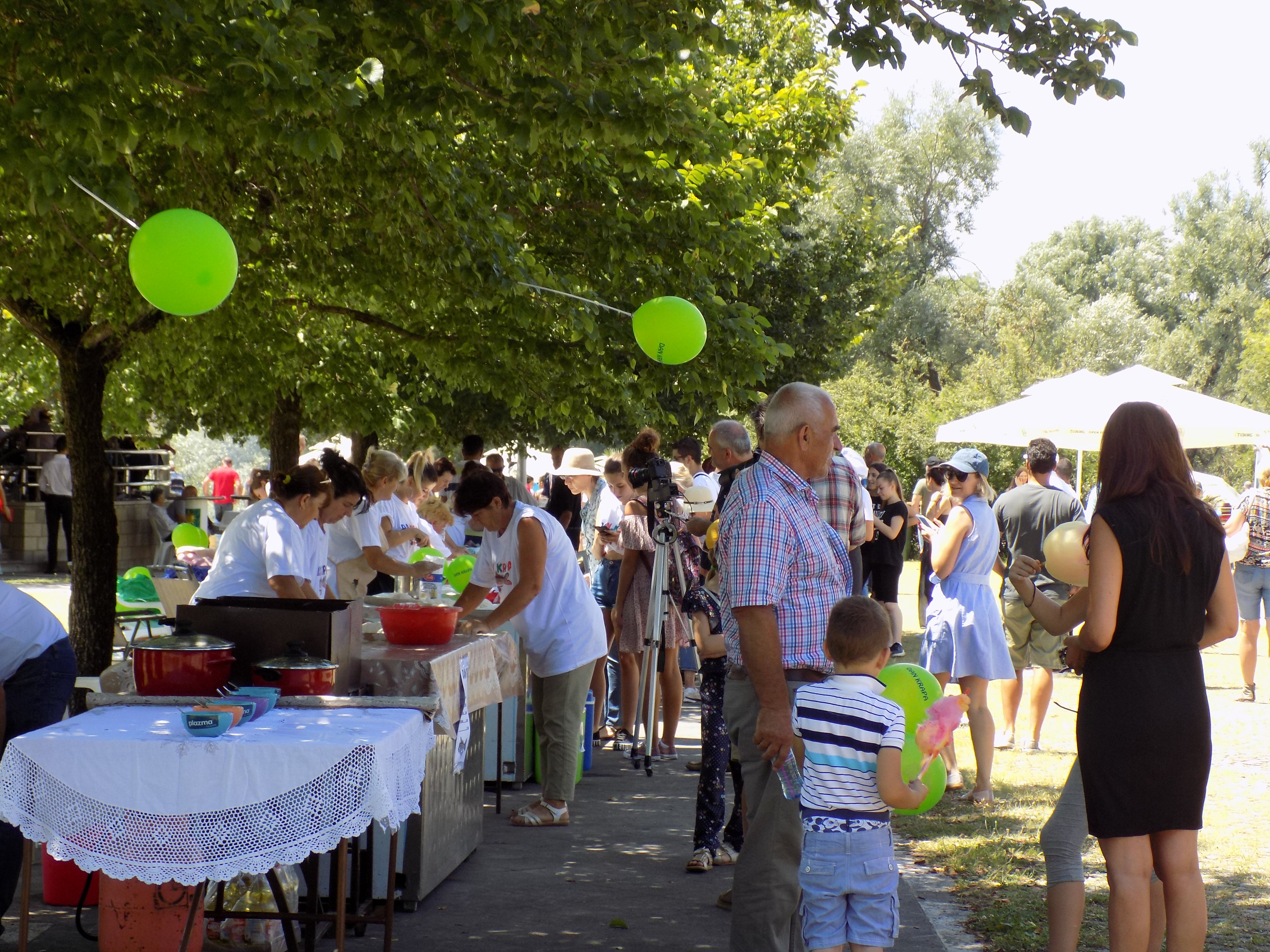 Carp Day in Plavnica, Podgorica, Montenegro